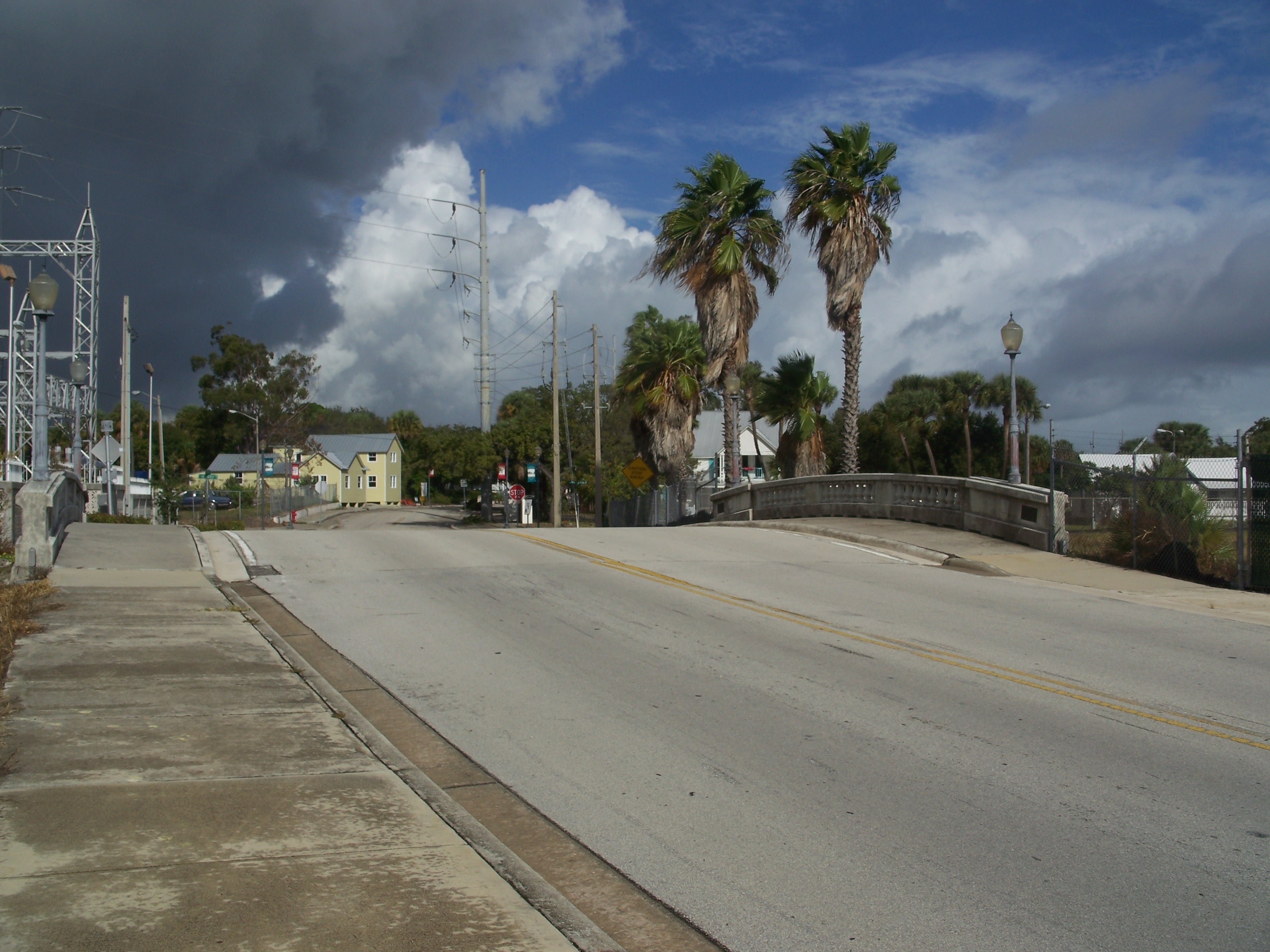 Fort Pierce, Florida: Moores Creek Bridge